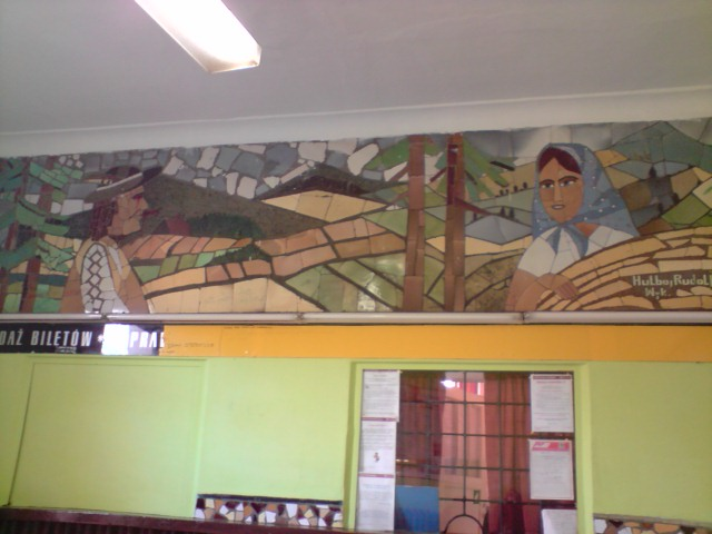 Inside railway station in Milowka